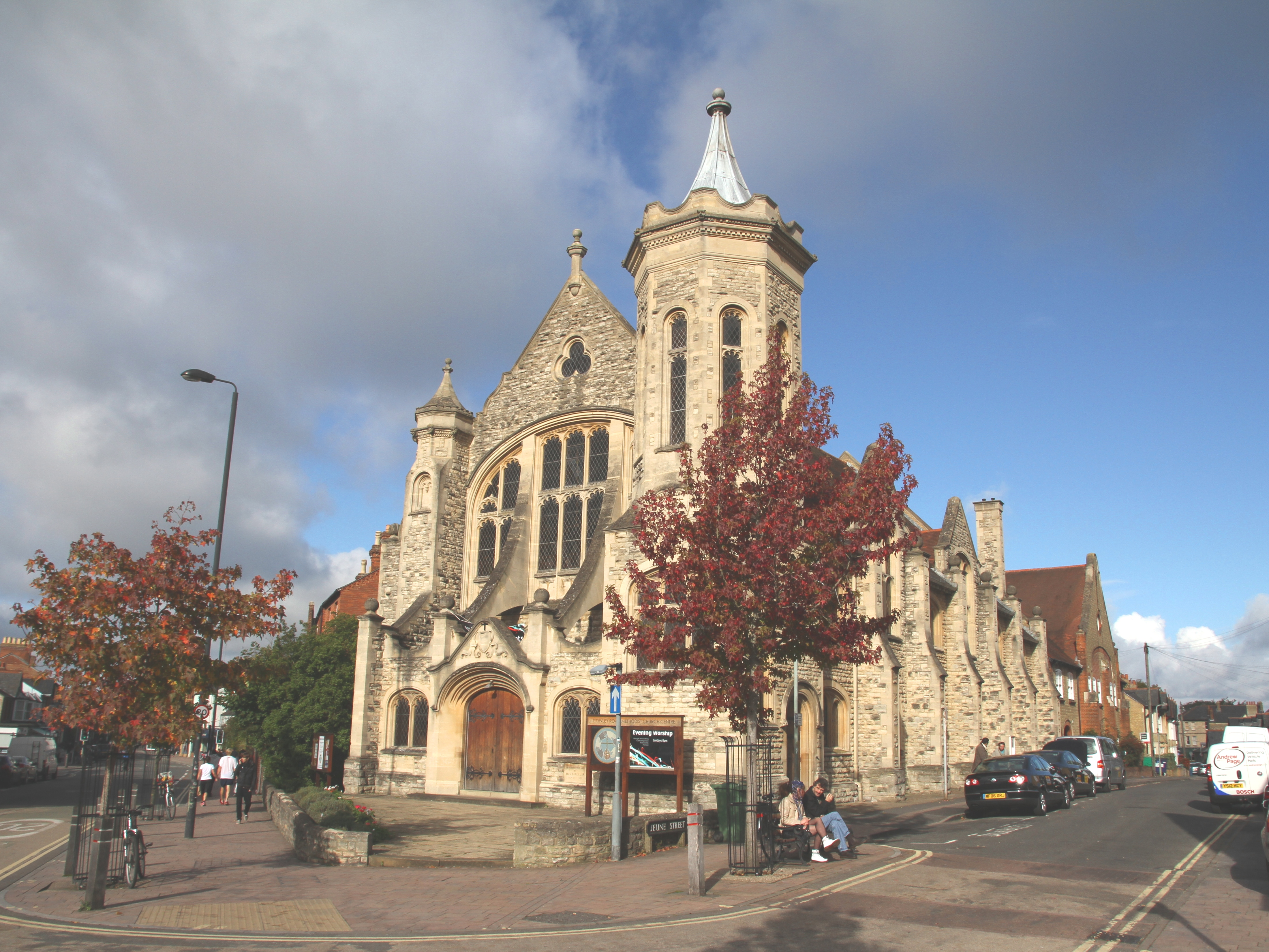 Methodist Church, Cowley Road, Oxford, England: oblique view from the southeast showing the south front on Cowley Road and east side along Jeune Street